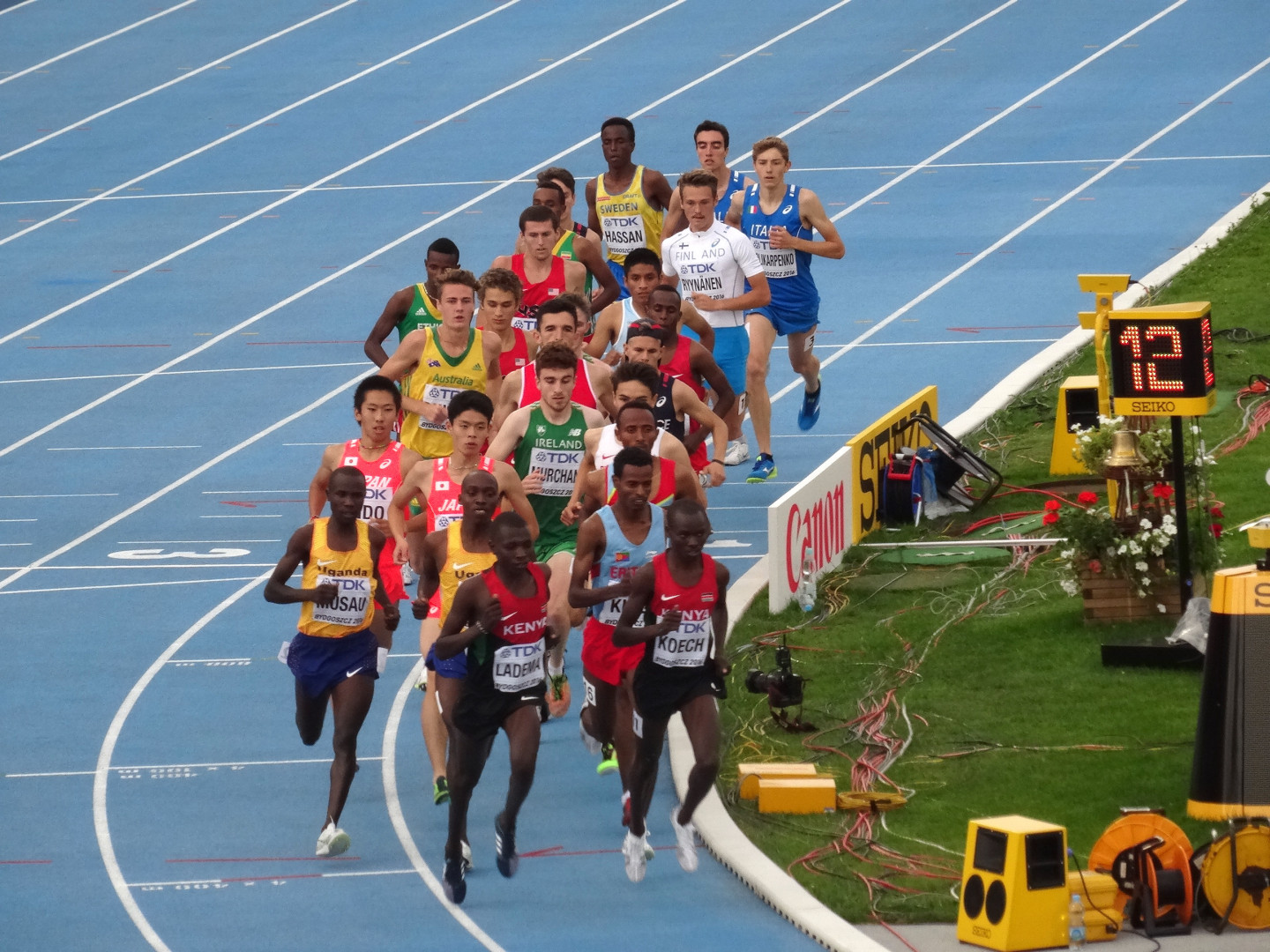 2016 IAAF World U20 Championships in Bydgoszcz, 5000m men final